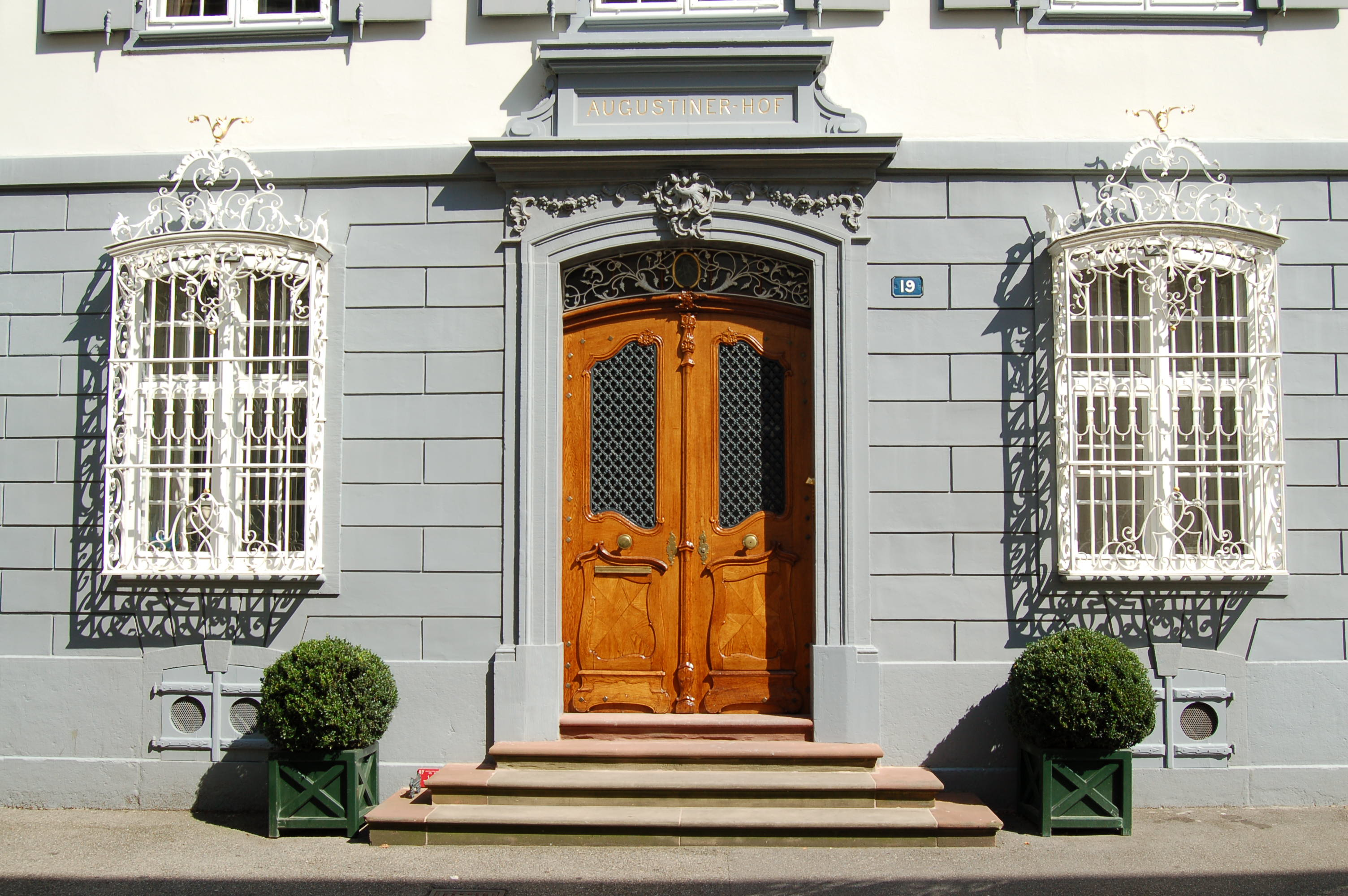 Basle, Switzerland